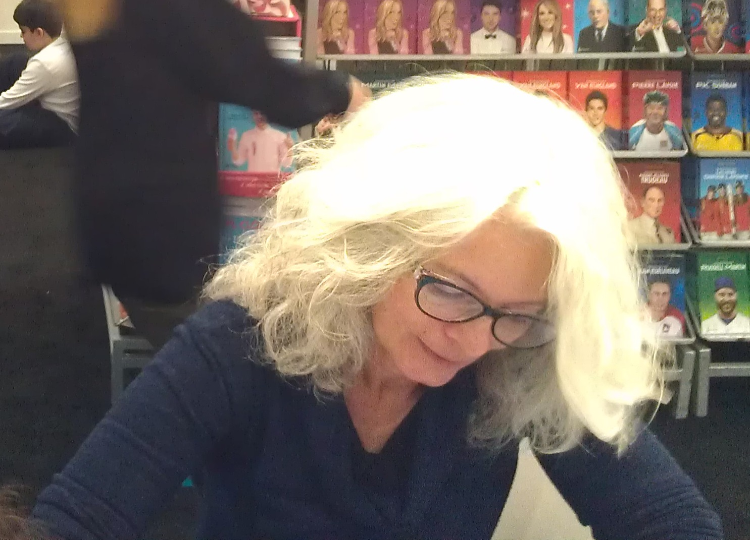 Sonia Sarfati photographed in Montréal , Québec, Canada at the salon du livre de Montréal 2017.